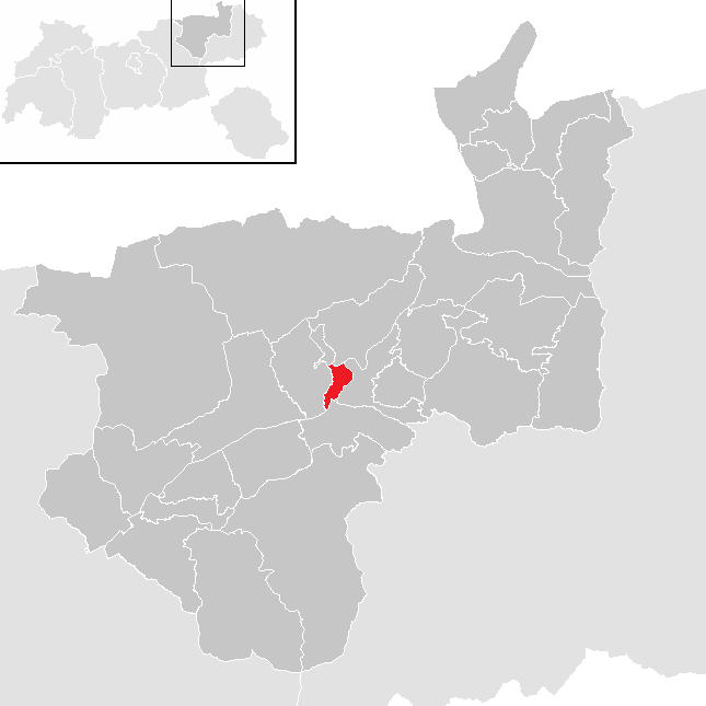 District Kufstein